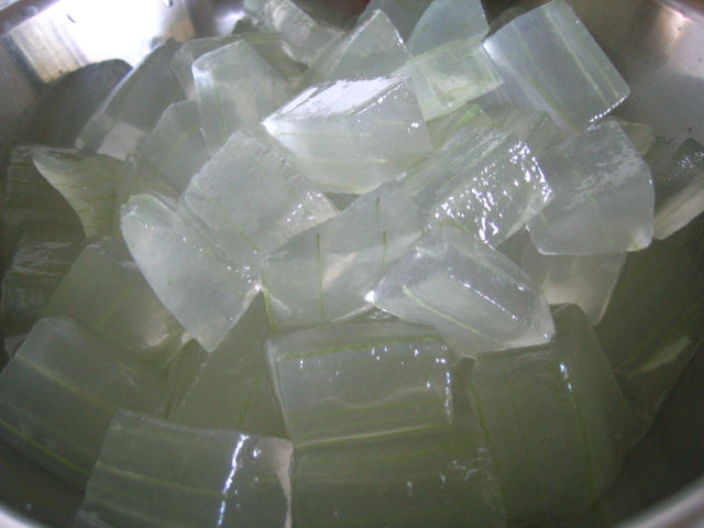 Using Aloe vera to make a dessert